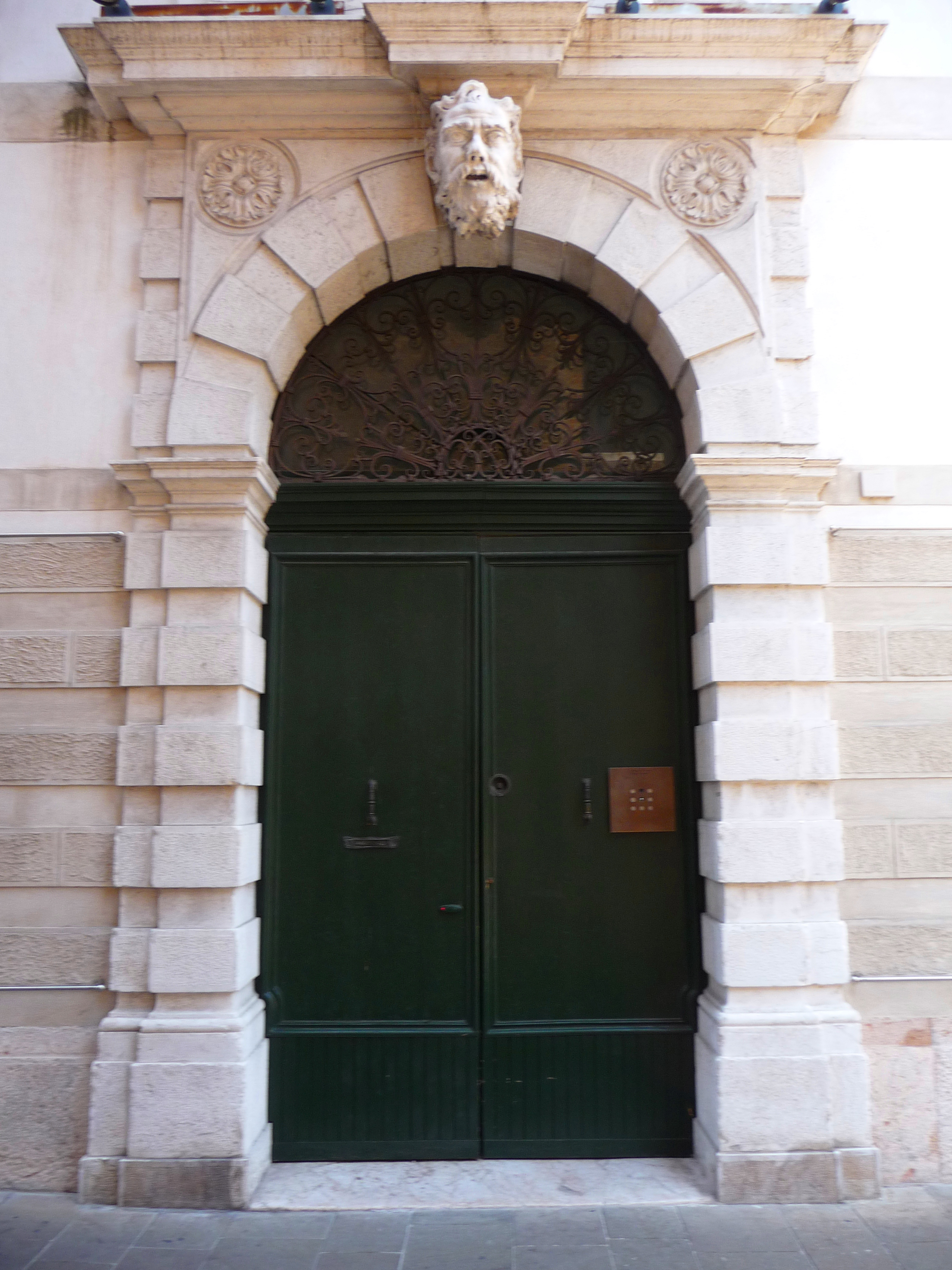 main entrance of Palazzo Bomben in Treviso